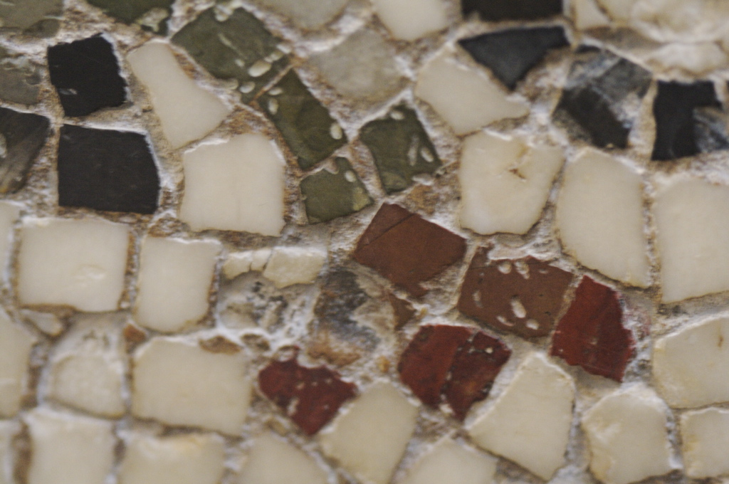 A hoard of photos from a day trip to London. We started in Greenwich at the Royal Observatory, and then spent most of the evening at the British Museum. These are uncleaned and unedited; all I've done is shrunk to make it faster to upload them. I'll post some of my faves to my "real" Flickr account as time and mood permits. A hoard of photos from a day trip to London. We started in Greenwich at the Royal Observatory, and then spent most of the evening at the British Museum. These are uncleaned and unedited; all I've done is shrunk to make it faster to upload them. I'll post some of my faves to my "real" Flickr account as time and mood permits.